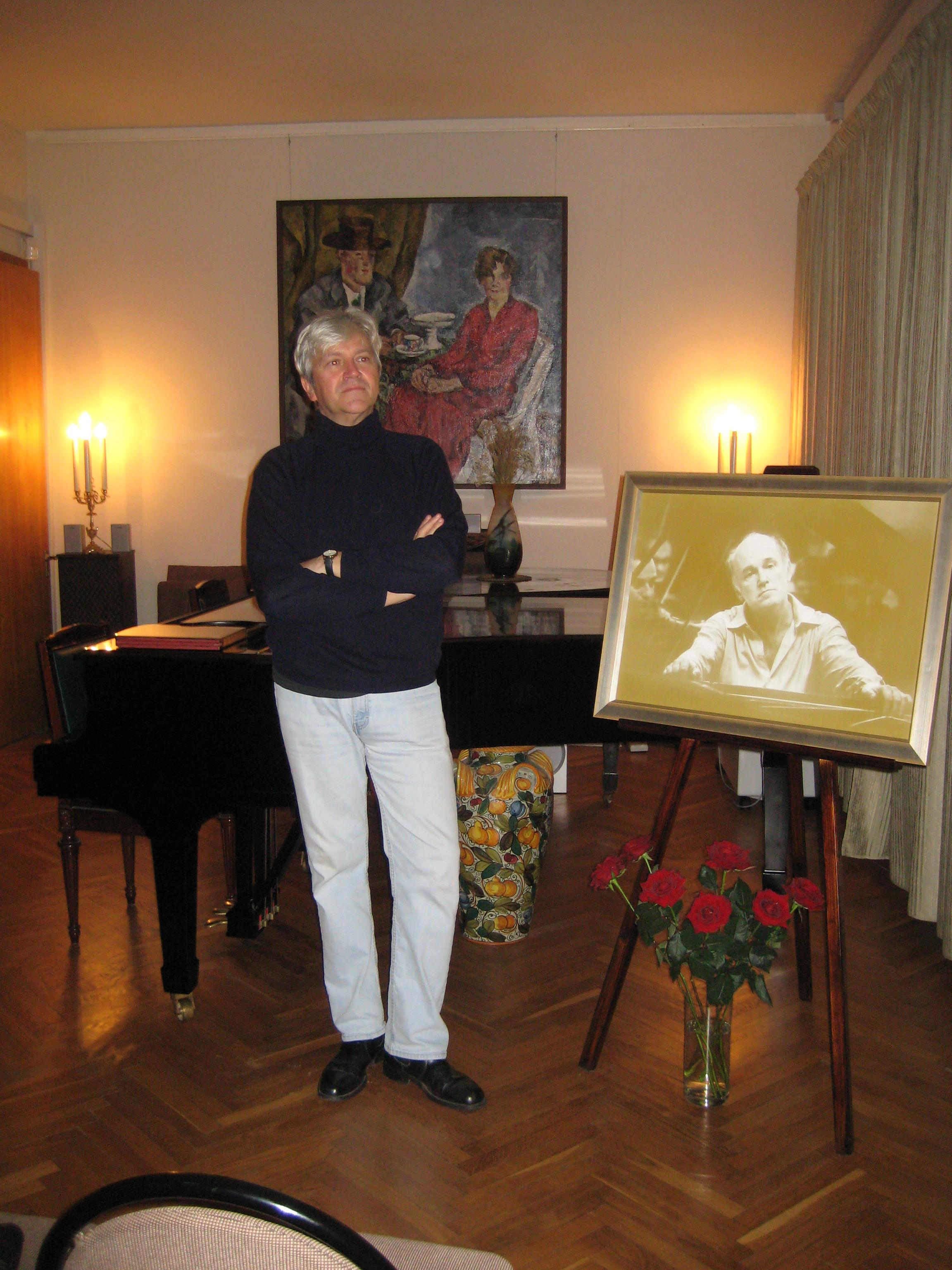 Peter Bradley-Fulgoni at the Sviatoslav Richter Memorial Apartment, Moscow.